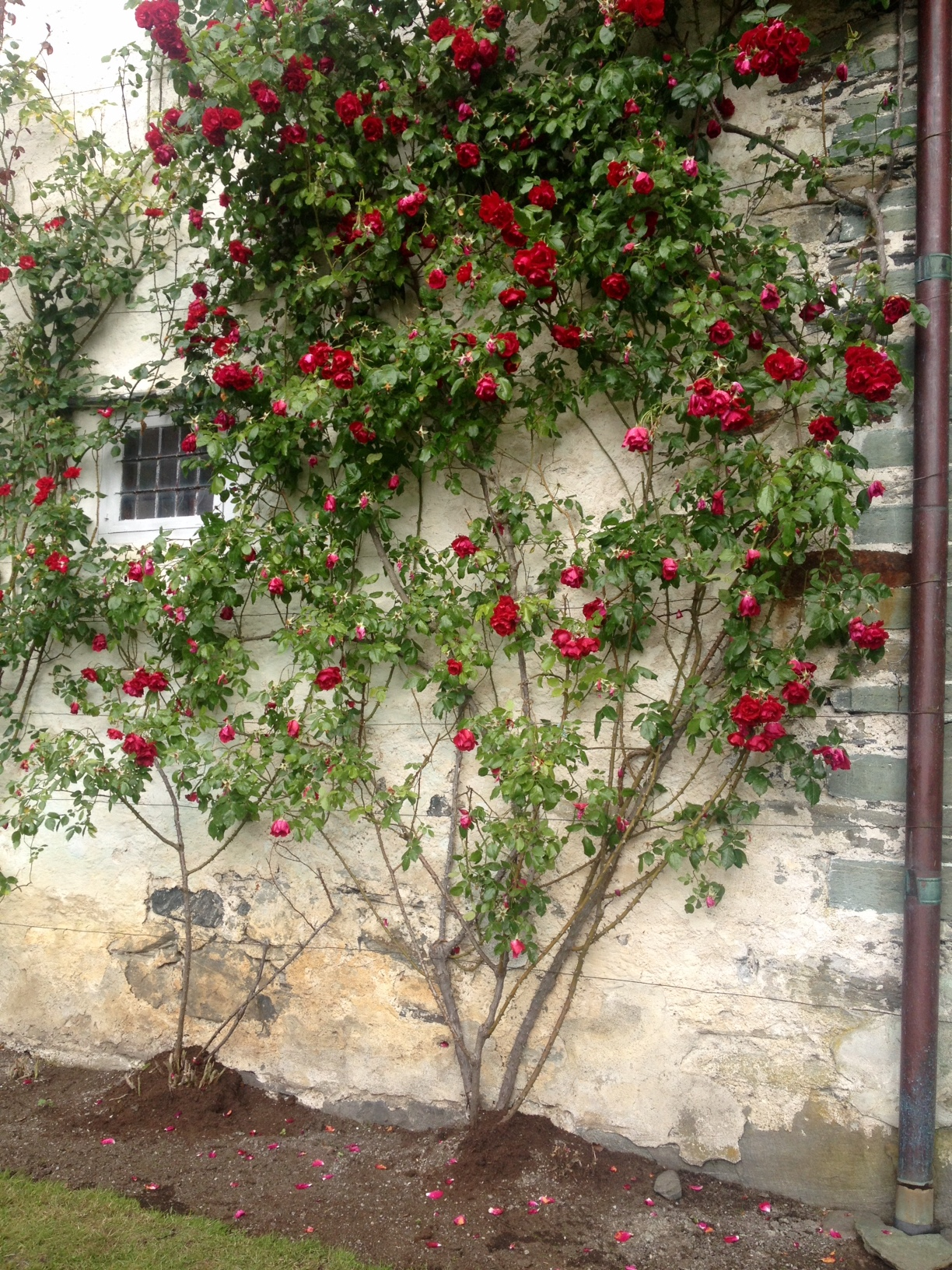 Roses growing up the outside wall of the Barony in Rosendal, Norway.